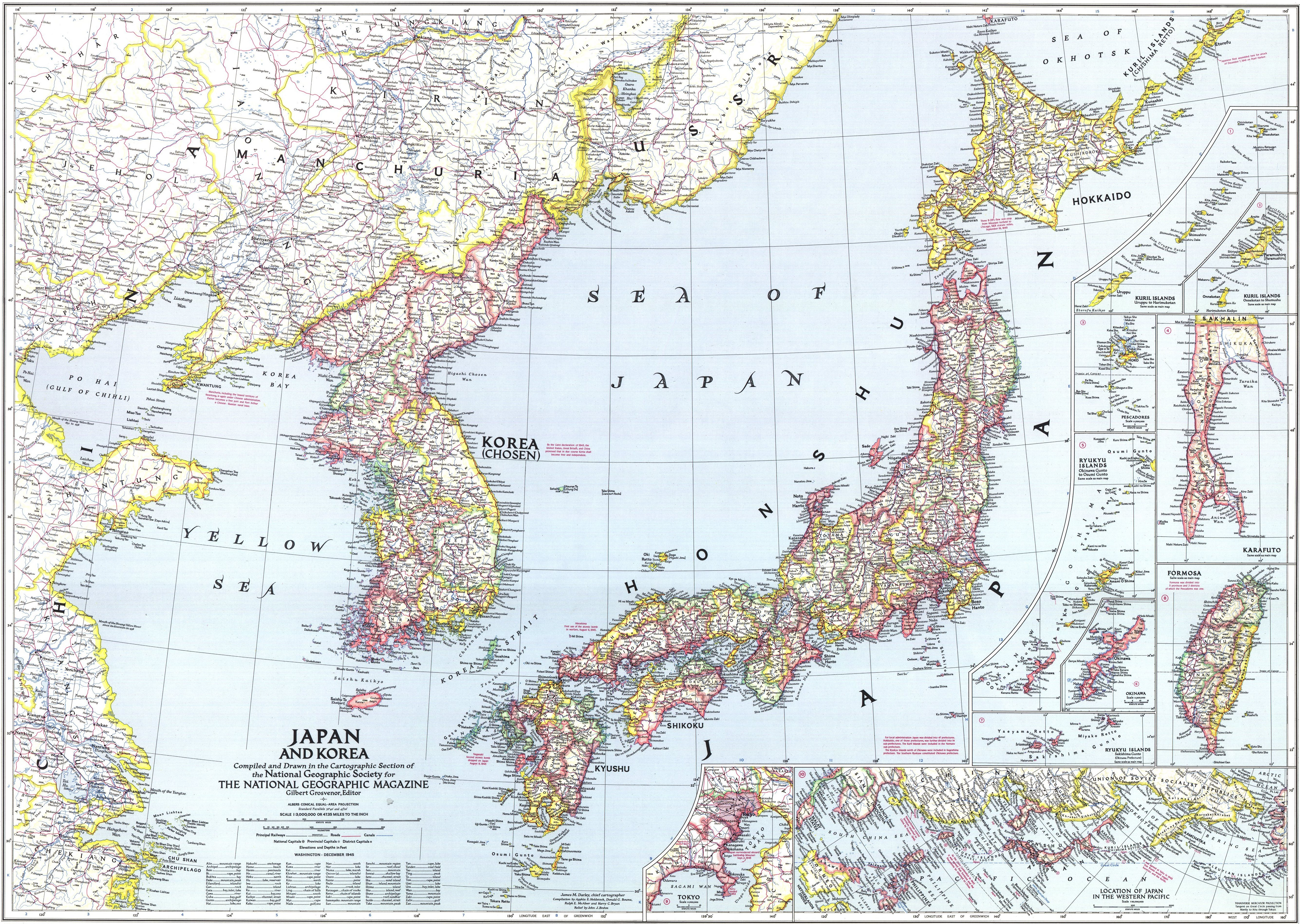 National Geographic map of Korea and Japan, 1945. This map reflects ROC's claim around Paektu Mountain. This map does not reflect de facto Sino-Korean border in 1945.